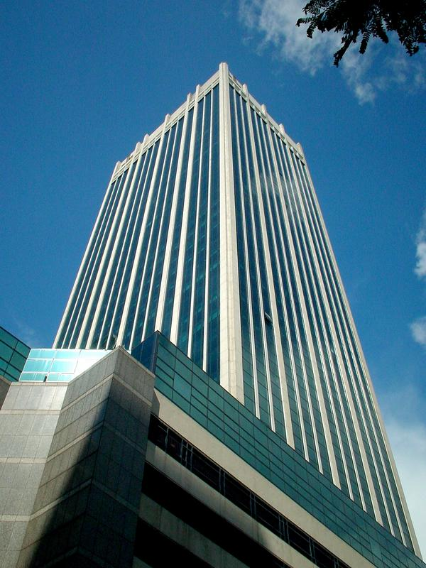 Description: Hong Leong Building seen from the west. Source: Self-made Location: Singapore Date: Photographer/Painter: Huaiwei